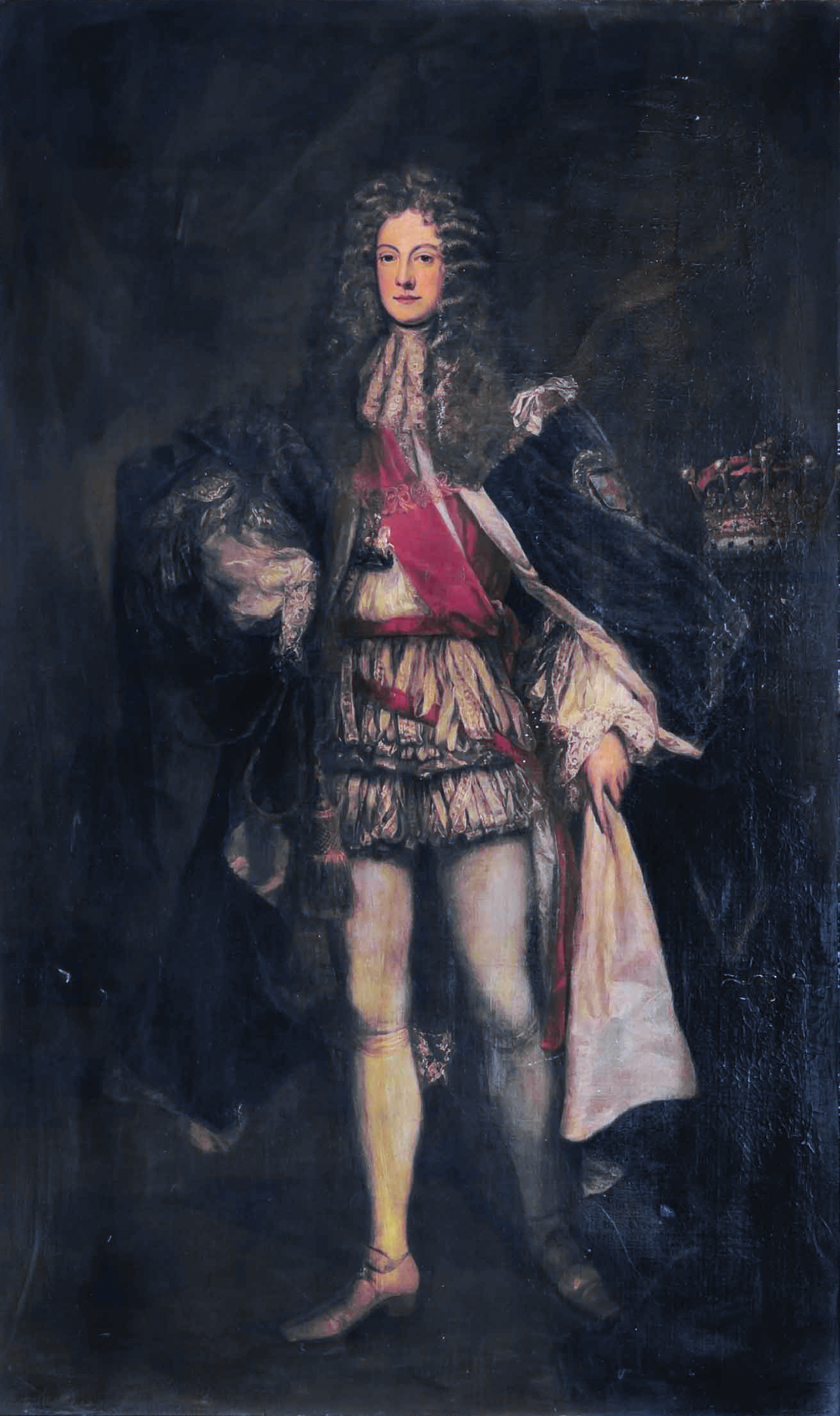 John Poulett, 1st Earl Poulett oil on canvas 240 x 143 cm inscribed b.l.: G. Keneller pinx./John first Earl Poulett signed b.l.: G. Kneller fecit